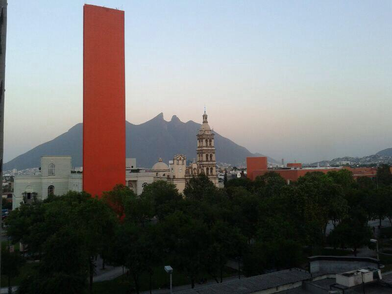 Photo of the Faro del Comercio monument (left), the Metropolitan Cathedral of Our Lady of Monterrey (right), and the Cerro de la Silla (background). Below where the trees are is the Macroplaza Monterrey, the main town square. This picture was taken in the city of Monterrey, Nuevo León, Mexico on 28 April 2014 from a hotel room.